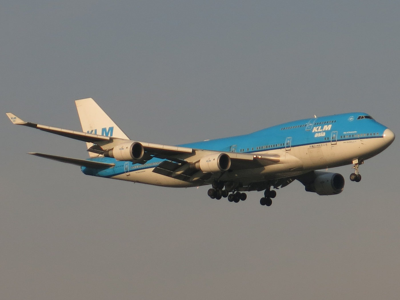 KLM Boeing 747 Combi PH-BFP, marked KLM Asia, is on short final to JFK Runway 22L, operating Flight 643.